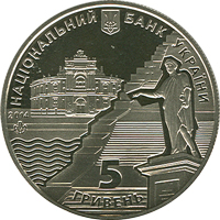 The obverse of commemorative coin of Ukraine "220 years of Odessa" (2014)